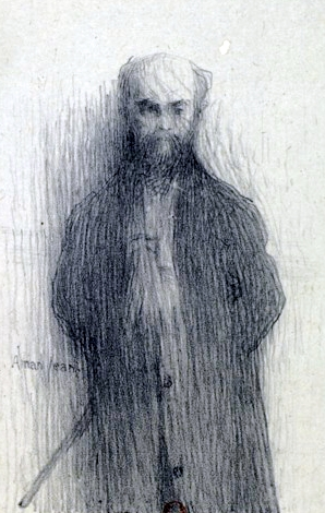 Lithograph by Edmond Aman-Jean (1858-1936) after his own painting